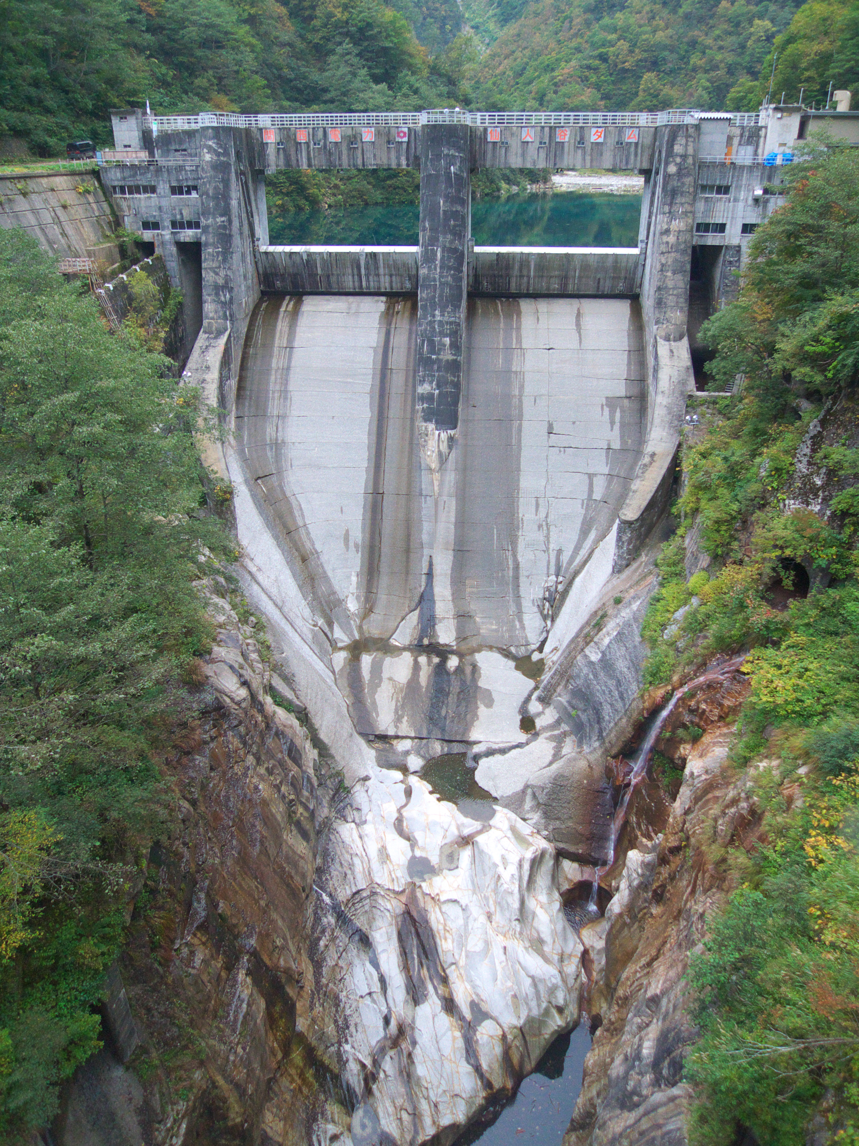 Sennindani Dam in Kurobe City, Toyama Prefecture, Japan